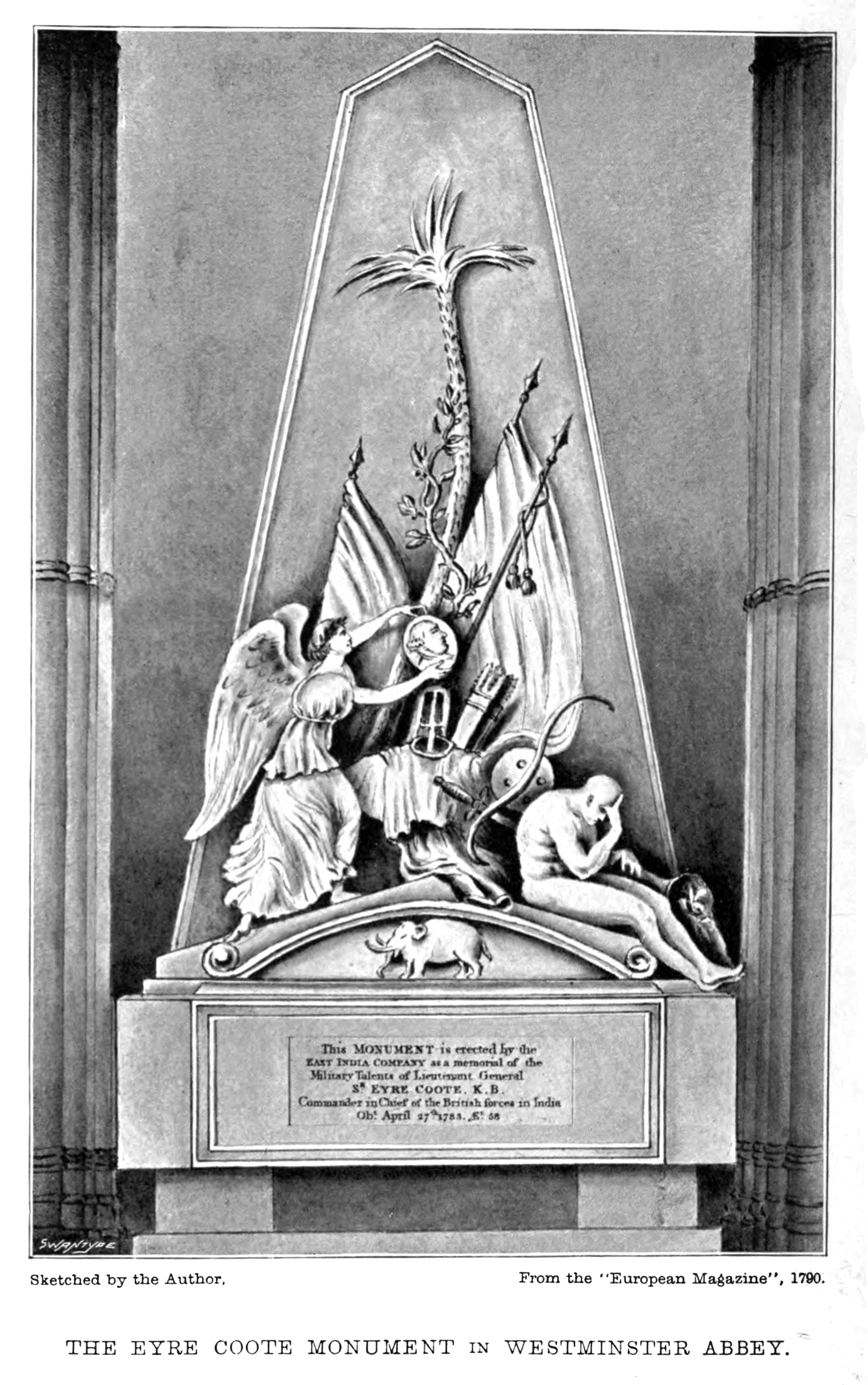 Memorial at Westminster Abbey for Eyre Coote (1745–1783)